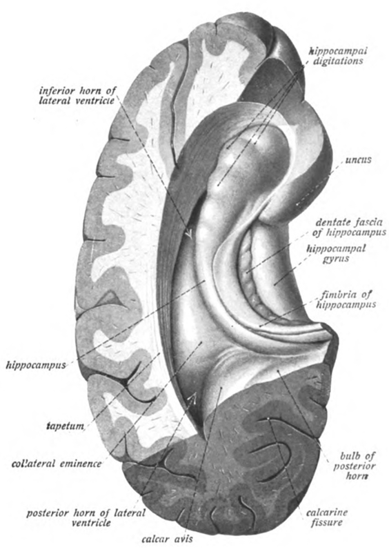 An anatomical illustration from the 1908 edition of Sobotta's Anatomy Atlas